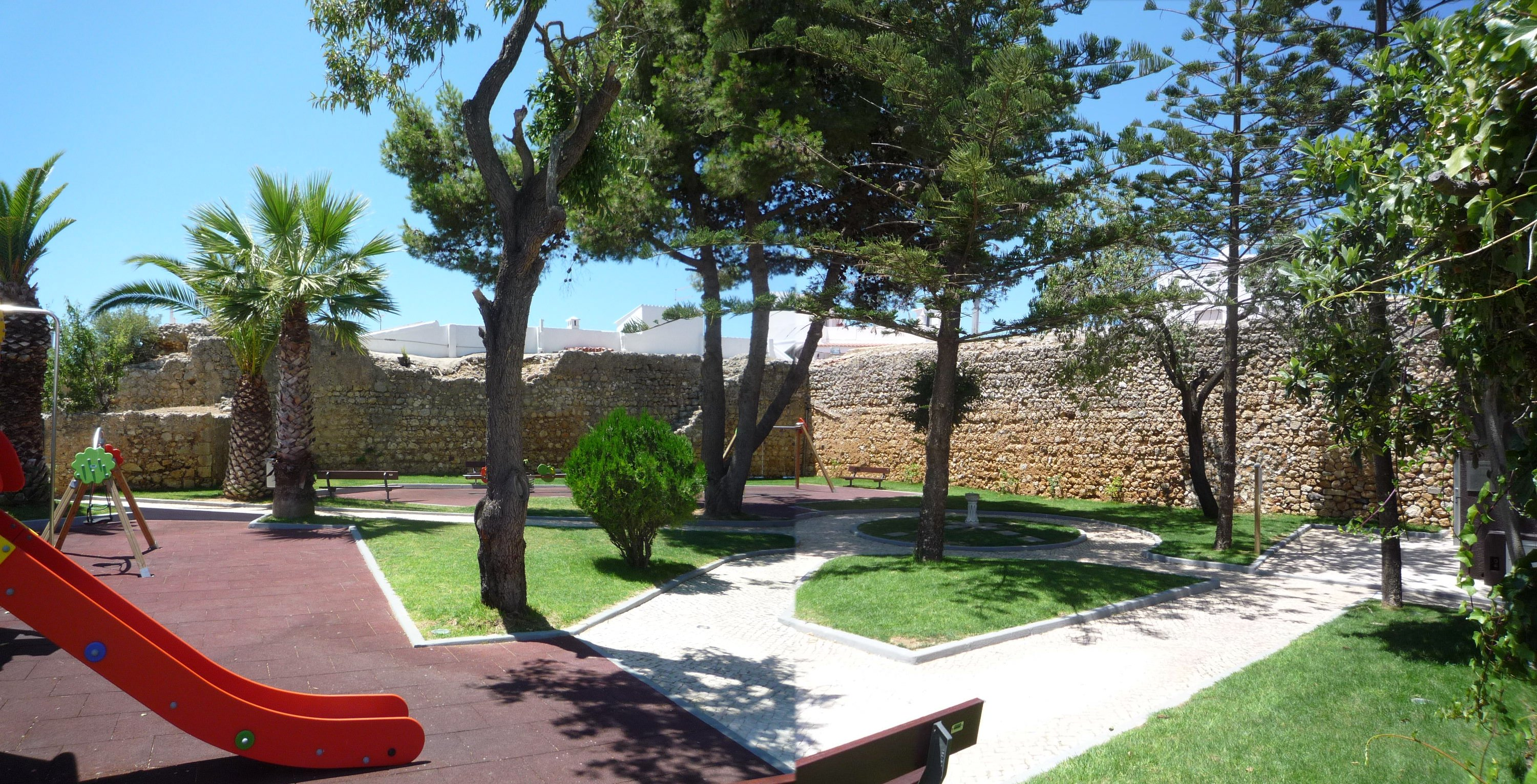 Castelo de Alvor at 37°07′45″N 8°35′37″W / 37.129277°N 8.593626°W beside the Travesa do Castelo in Alvor, Algarve. This view shows the interior which is now a parque infantil.